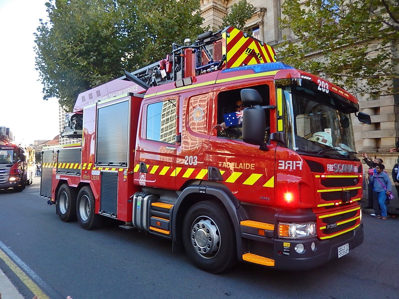 Shiny Red Fire Engine